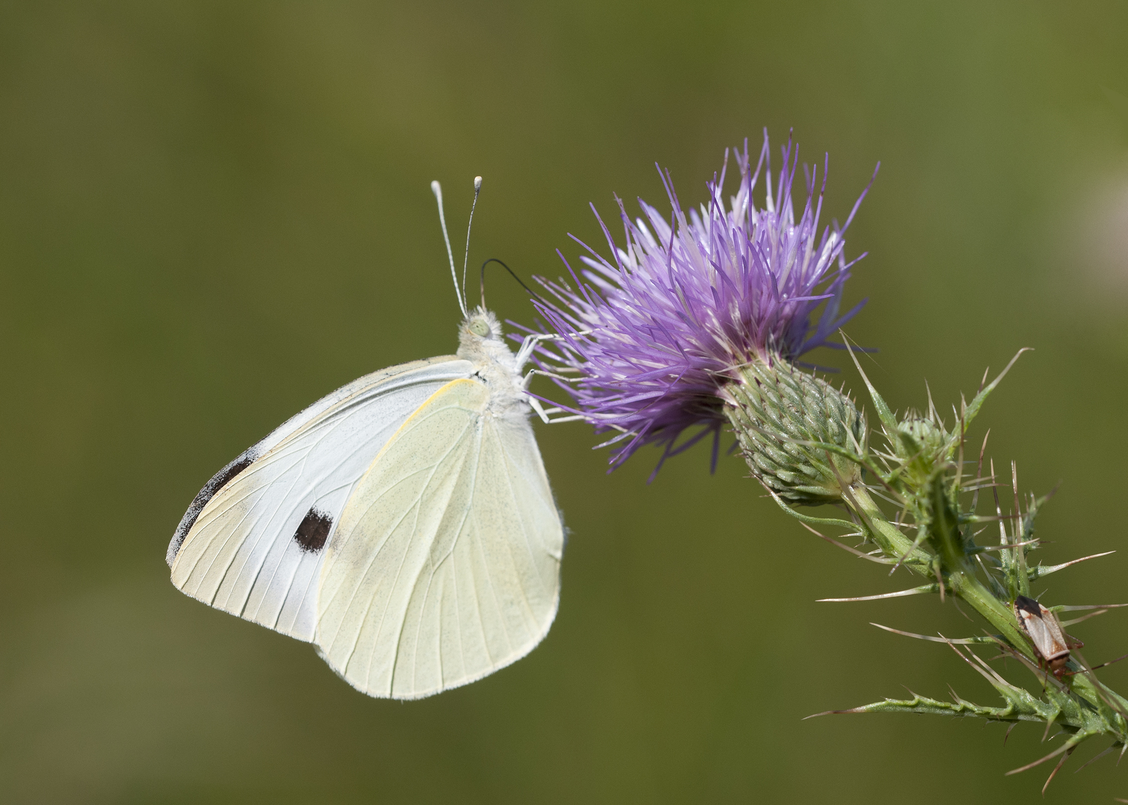 A female Large Cabbage White (Pieris brassicae), nectaring on a thistle flower. Çamardı, Niğde - Turkey.